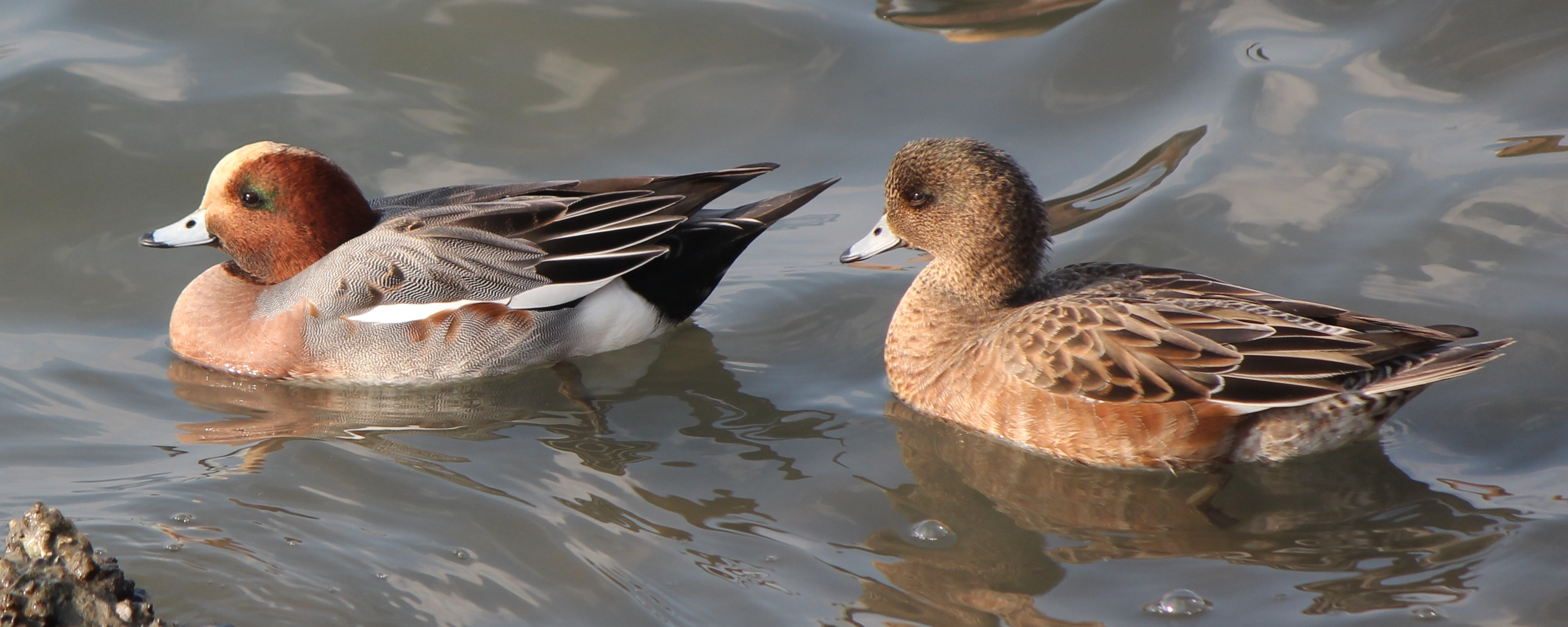 Eurasian Wigeon (Mareca penelope, left:male, right:female), in Fujimae-higata, Nagoya, Aichi prefecture, Japan.